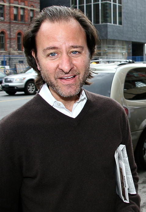 Fisher Stevens at the 2007 Toronto International Film Festival